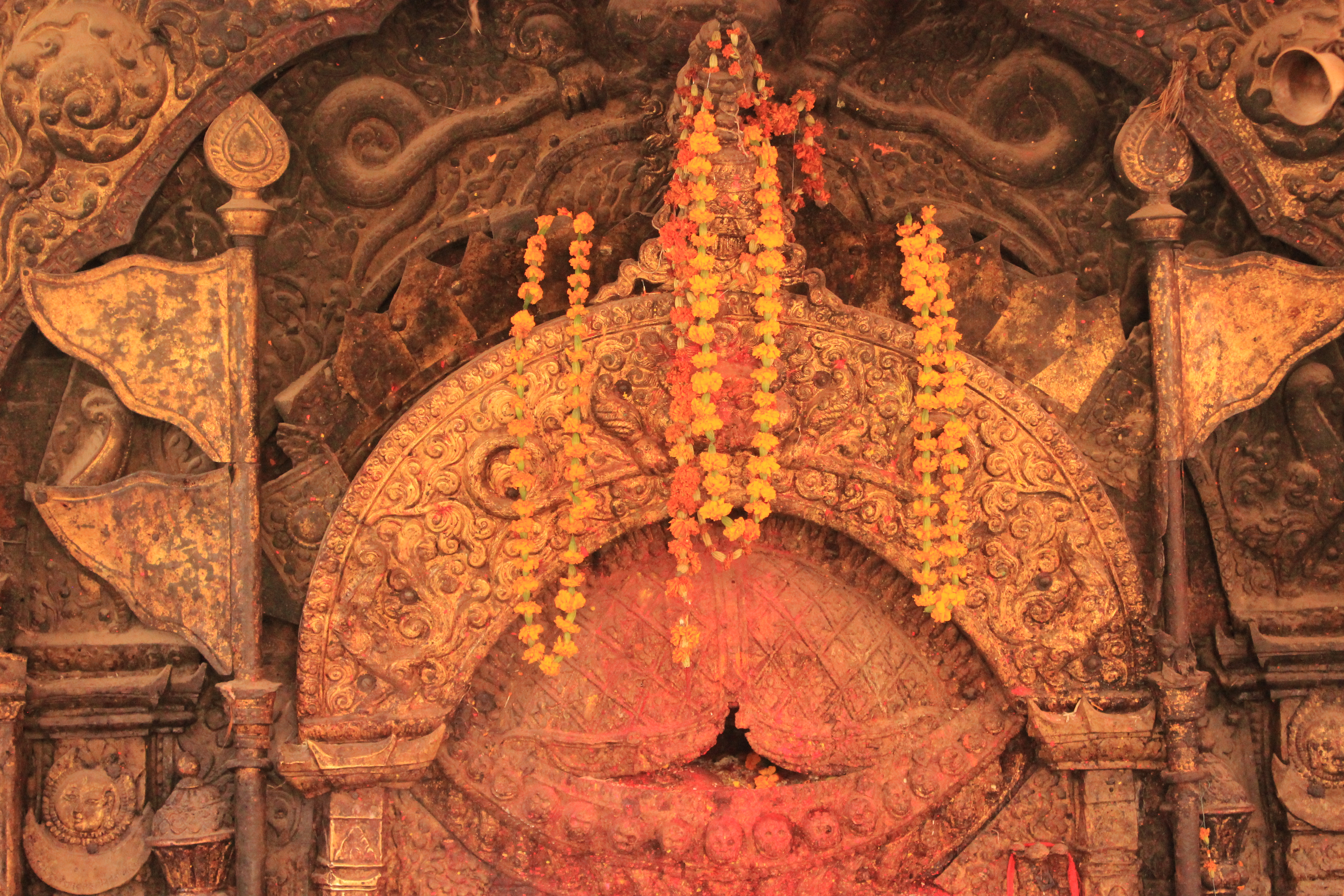 Goddess Balkumari is the incarnation of goddess Durga.